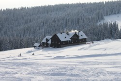 Pohled na chatu "Spořitelna" na Zadních Rennerovkách, Krkonoše